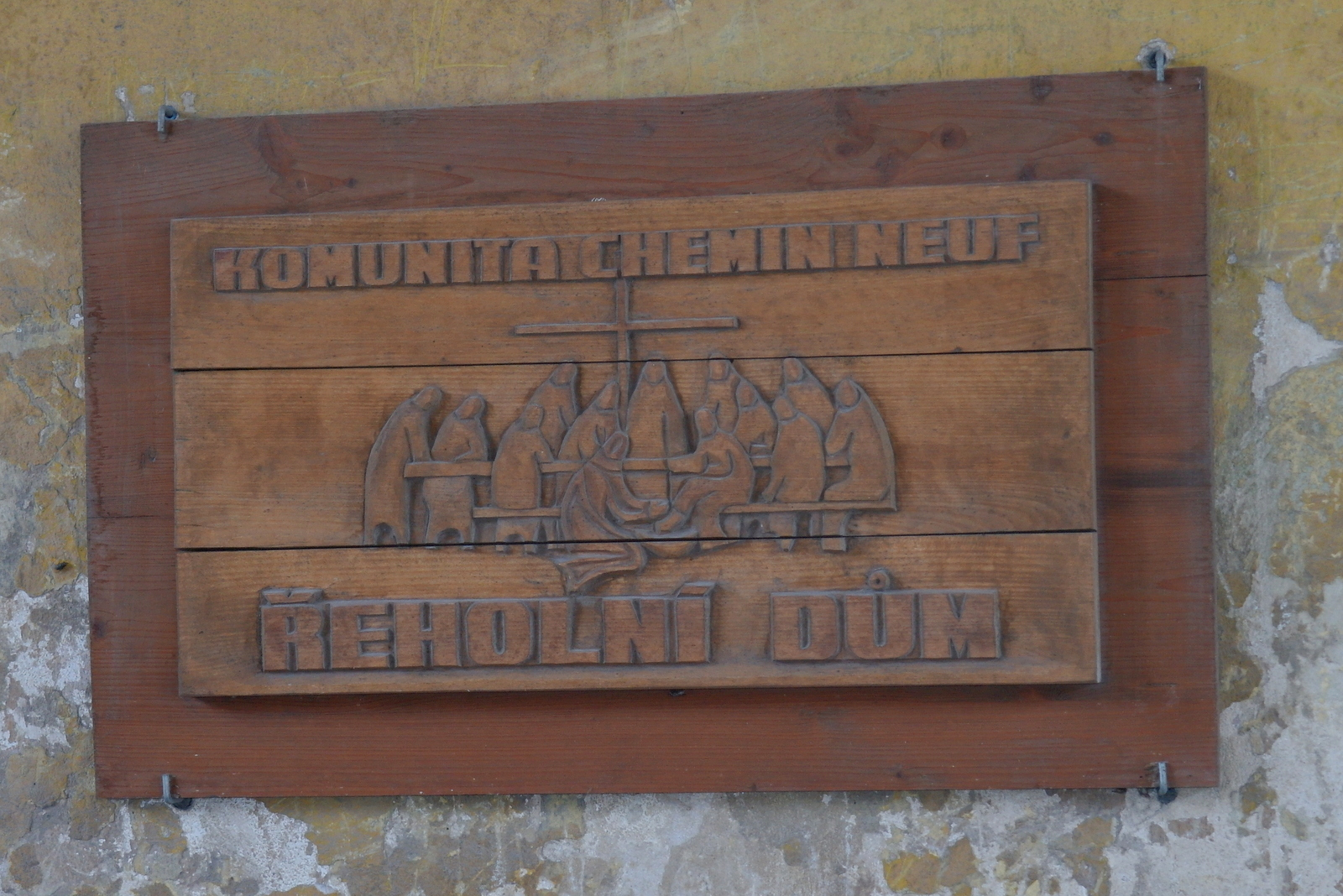 The former Jesuit residence with a church, 57 Školní str., Tuchoměřice 1, Tuchoměřice. Residence was built in the years 1665-1675. Architect G. D. Orsi. Today it is Religious house of community Chemin Neuf.